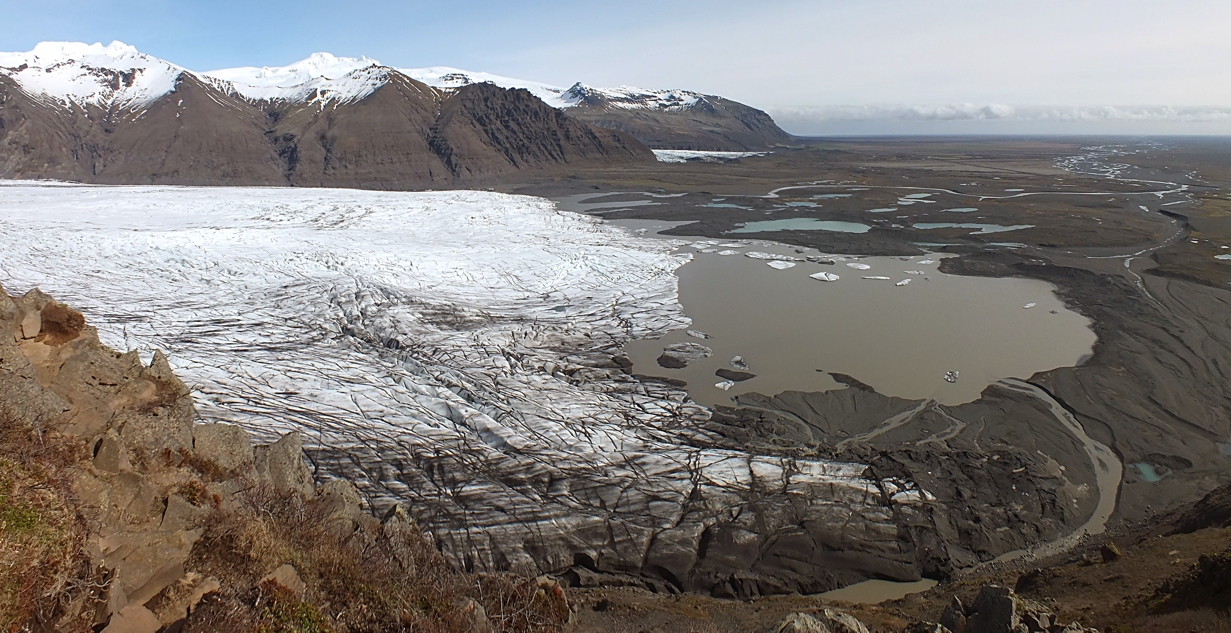 Skaftafellsjökull.